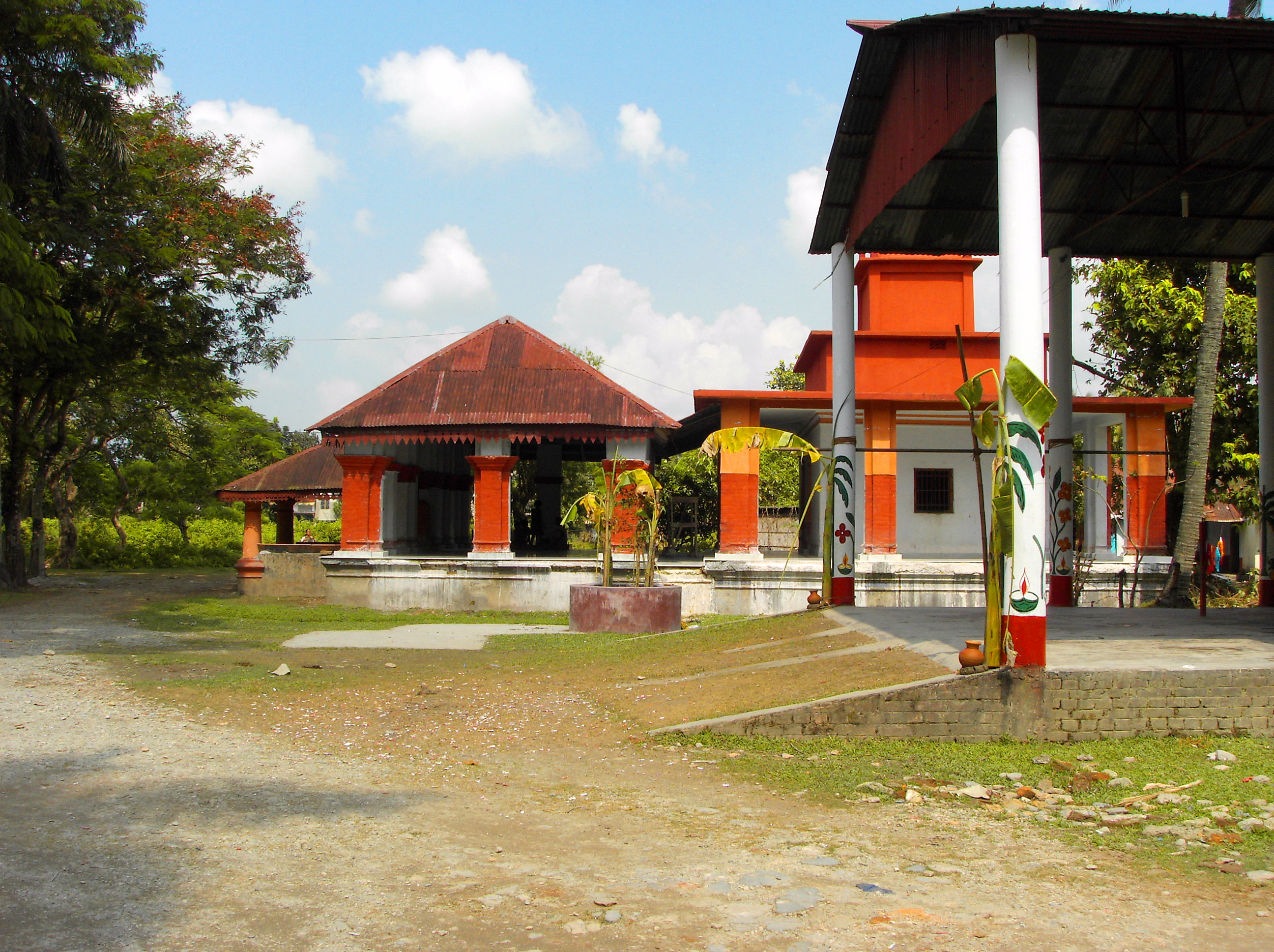 This is one of the oldest temple in Jalpaiguri and is before the Palace of the Raikuts and the Kings of the palace used to worship there.